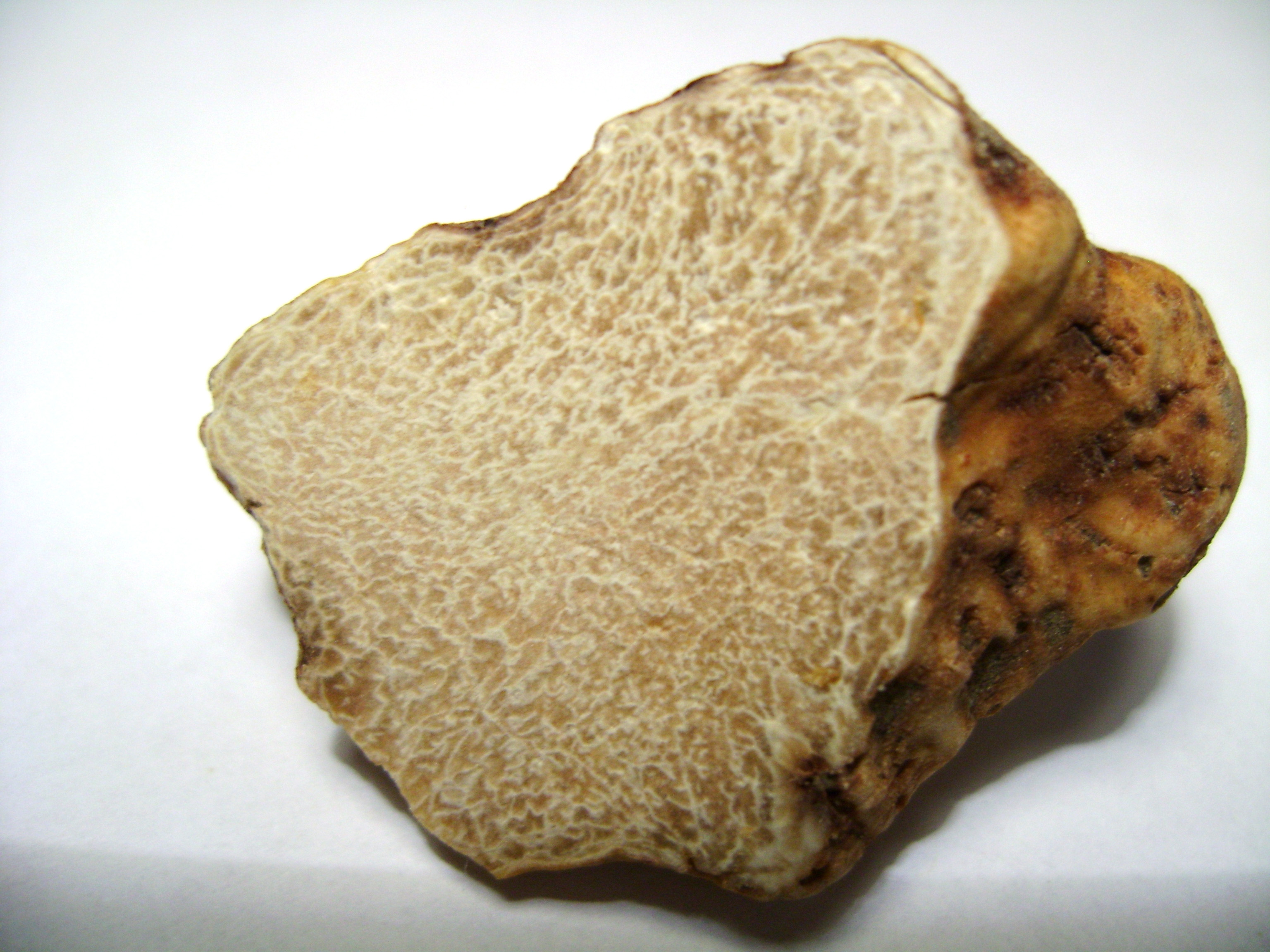 Tuber magnatum (white truffle of Alba), section